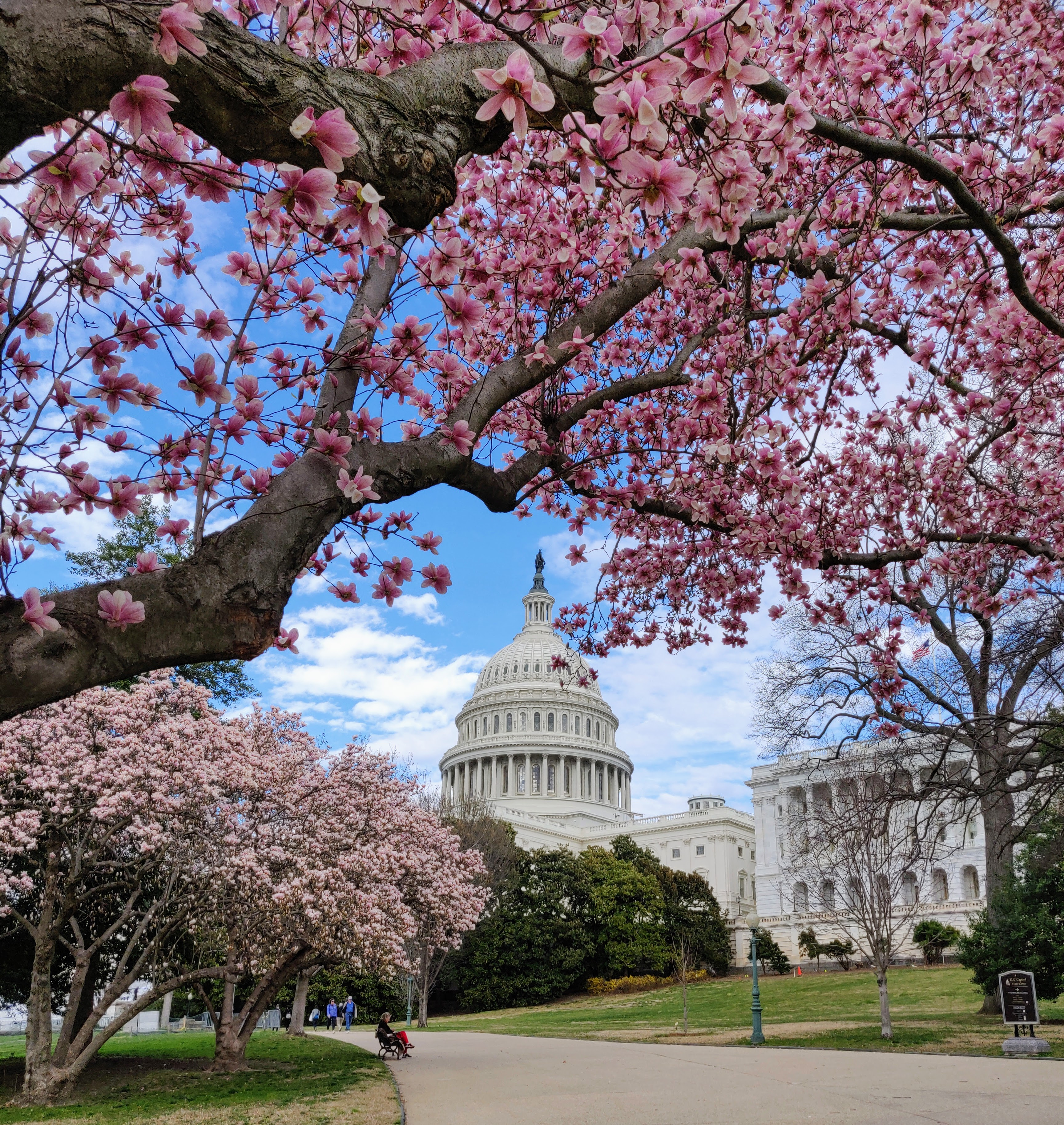 The U.S. Capitol building, as seen from a pathway on the capitol grounds, with a magnolia tree branching overhead.